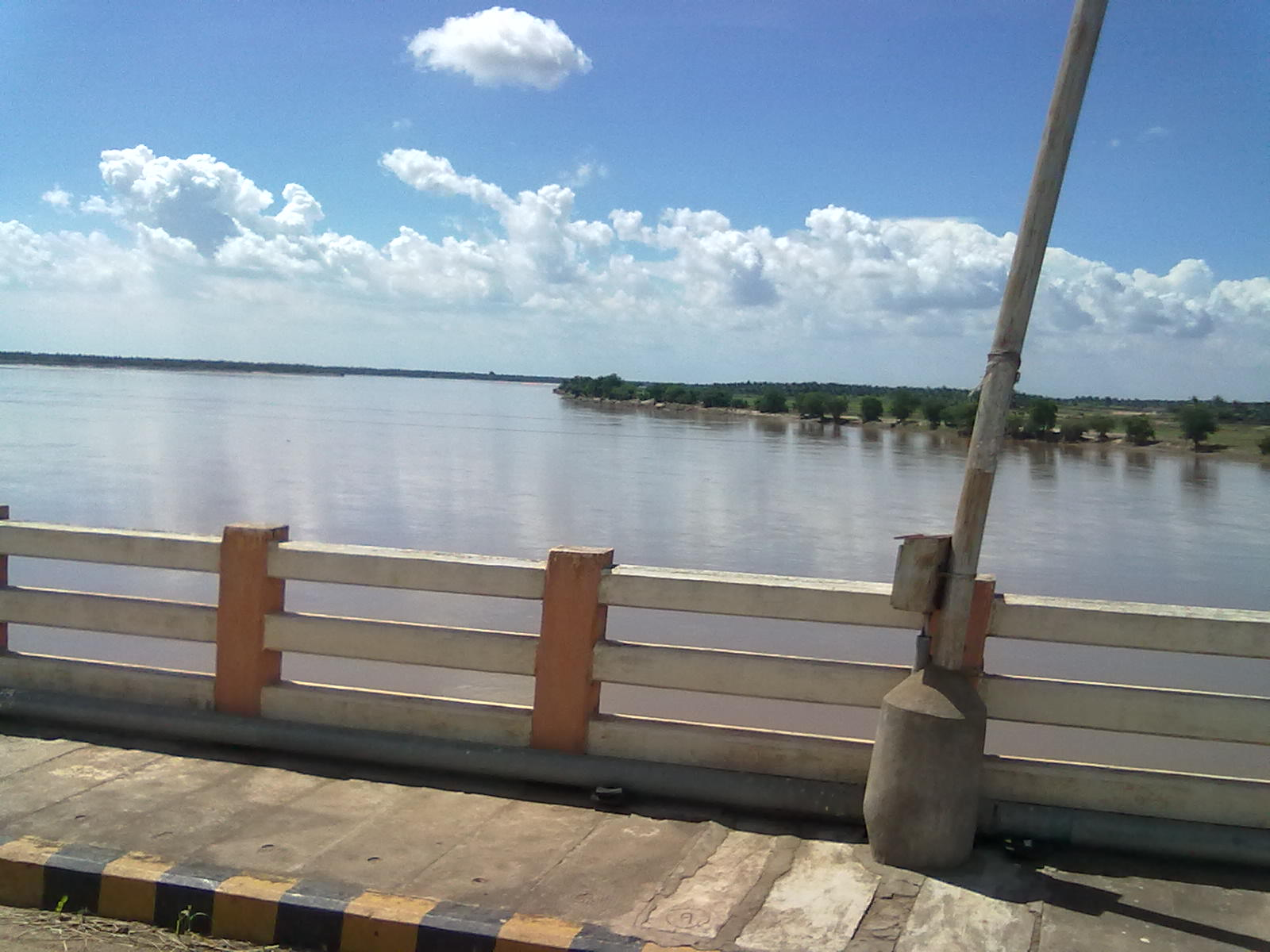 this is locate at gannavaram, east godavari dist,andhrapradesh